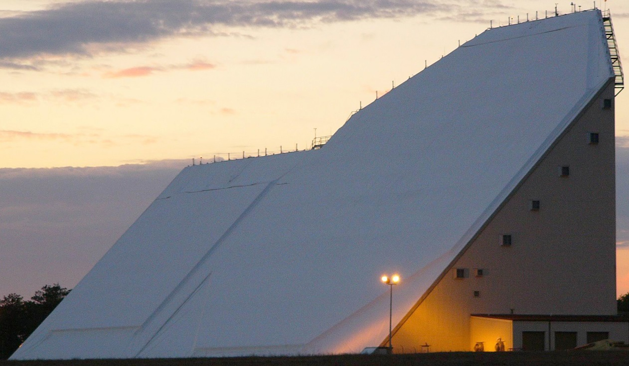 Buildings housing the AN/FPS-85 phased array radar at Eglin AFB Site C-6 in Eglin, Florida. The AN/FPS-85, which became operational in 1969, was the world's first large phased array radar. With a peak output power of 32 megawatts the US Air Force claims it to be the most powerful radar in the world. It consists of two buildings side by side facing south, with the radar antennas mounted on their sloping 45° faces. The transmitting antenna on the background building (left) consists of a rectangular 72x72 array of 5,184 crossed dipole antennas spaced 37 cm apart. It transmits at 442 MHz with each transmitter module having an output power of 10 kW. The receiving antenna on the foreground building (right) consists of an octangular array 58 m in diameter consisting of 19,500 crossed dipole antenna elements feeding 4,660 receiver modules. It can reportedly track an object the size of a basketball at a distance of 22,000 nautical miles.